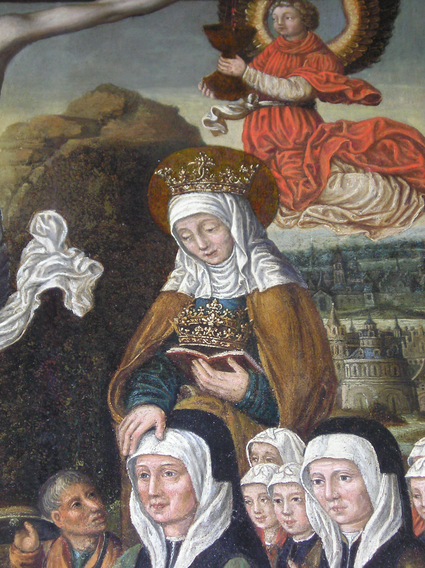 St. Elisabethchurch Grave - Elisabeth of Hungary